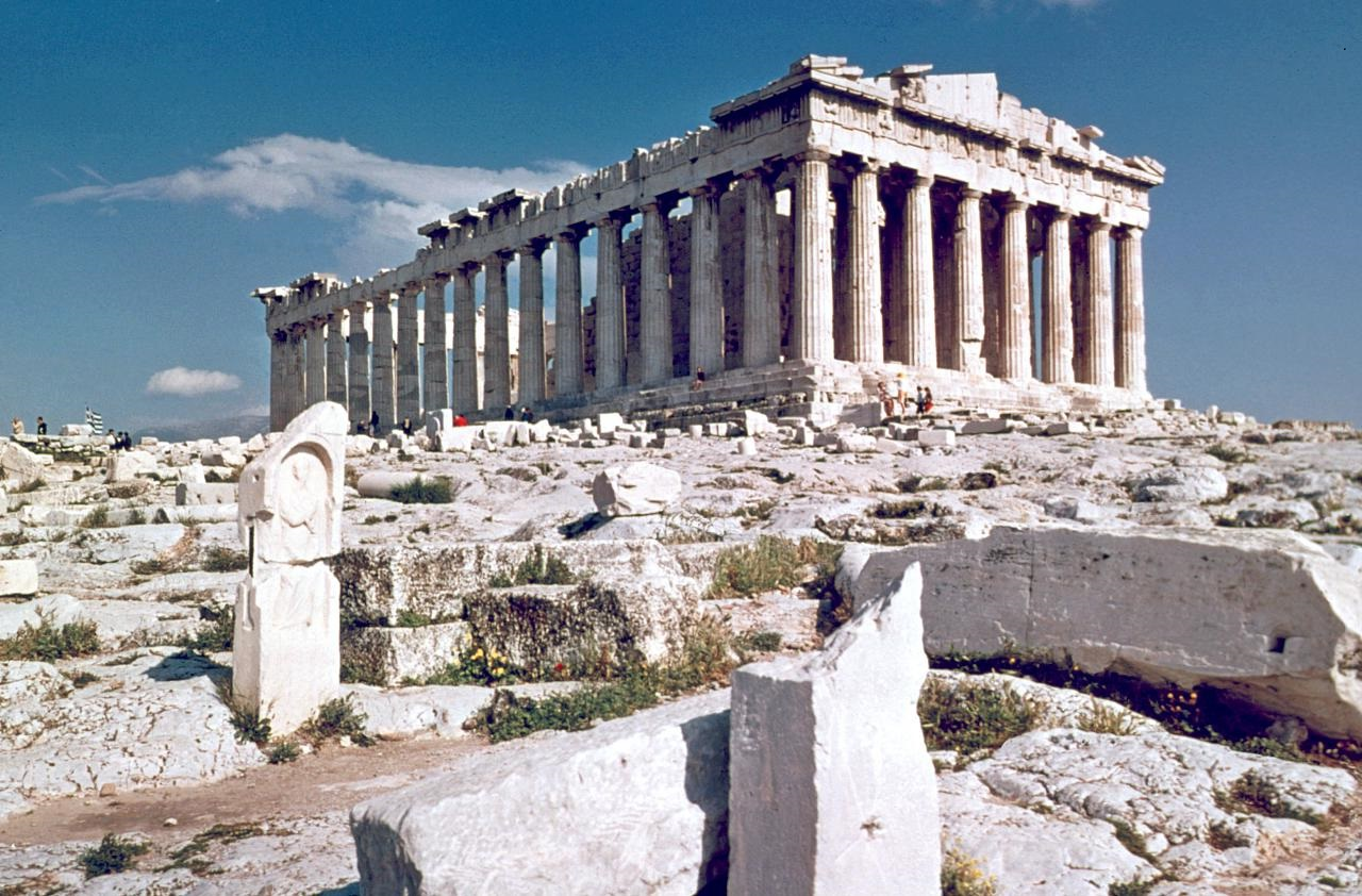 Parthenon, Athens Greece. Photo taken in 1978.